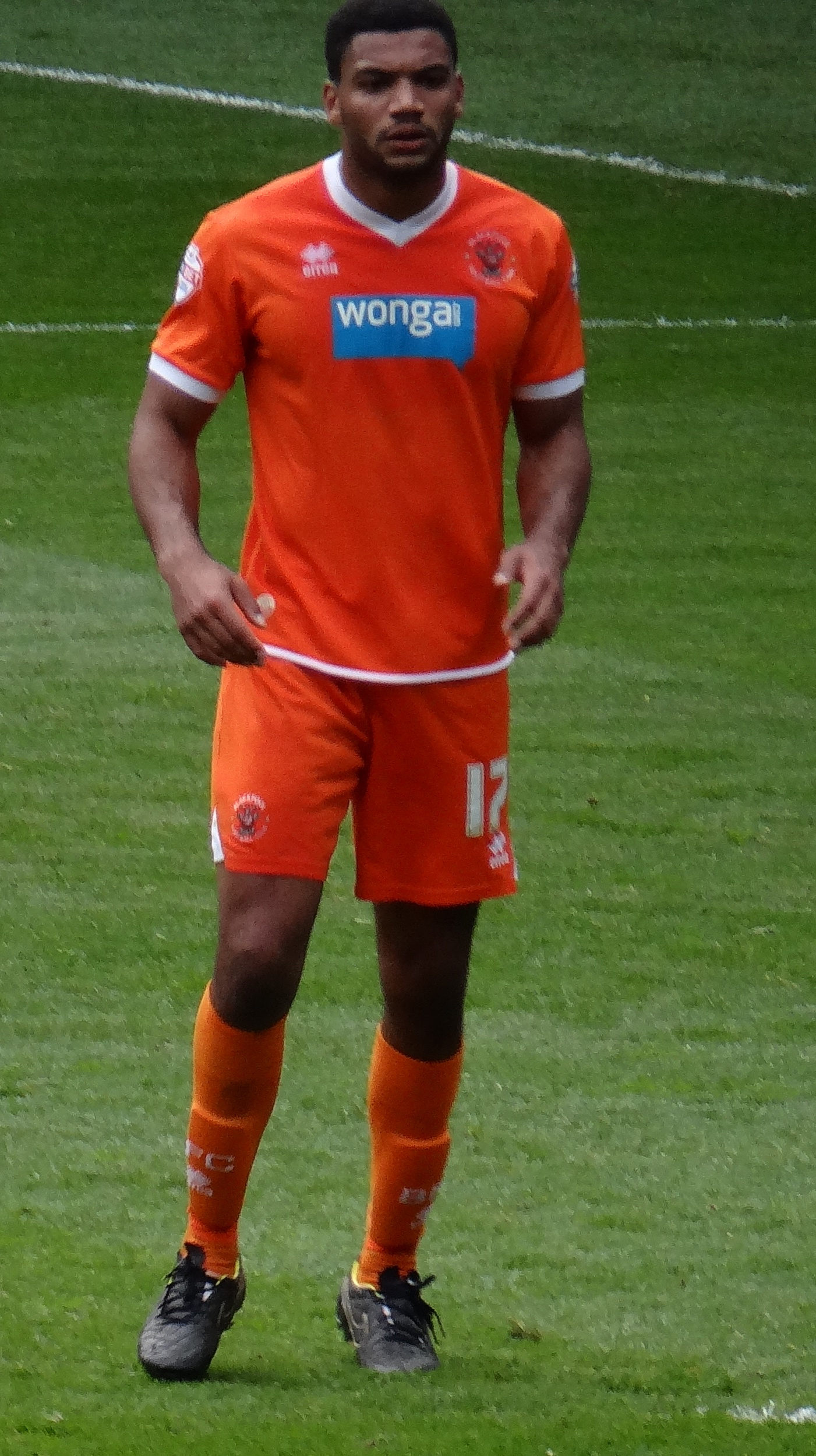 Footballer Miles Addison in 2015.